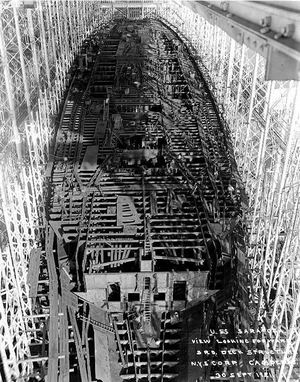 USS Saratoga (CC-3) under construction at the New York Shipbuilding Company shipyard, Camden, New Jersey, 30 September 1921. View looks forward, showing third deck structure.